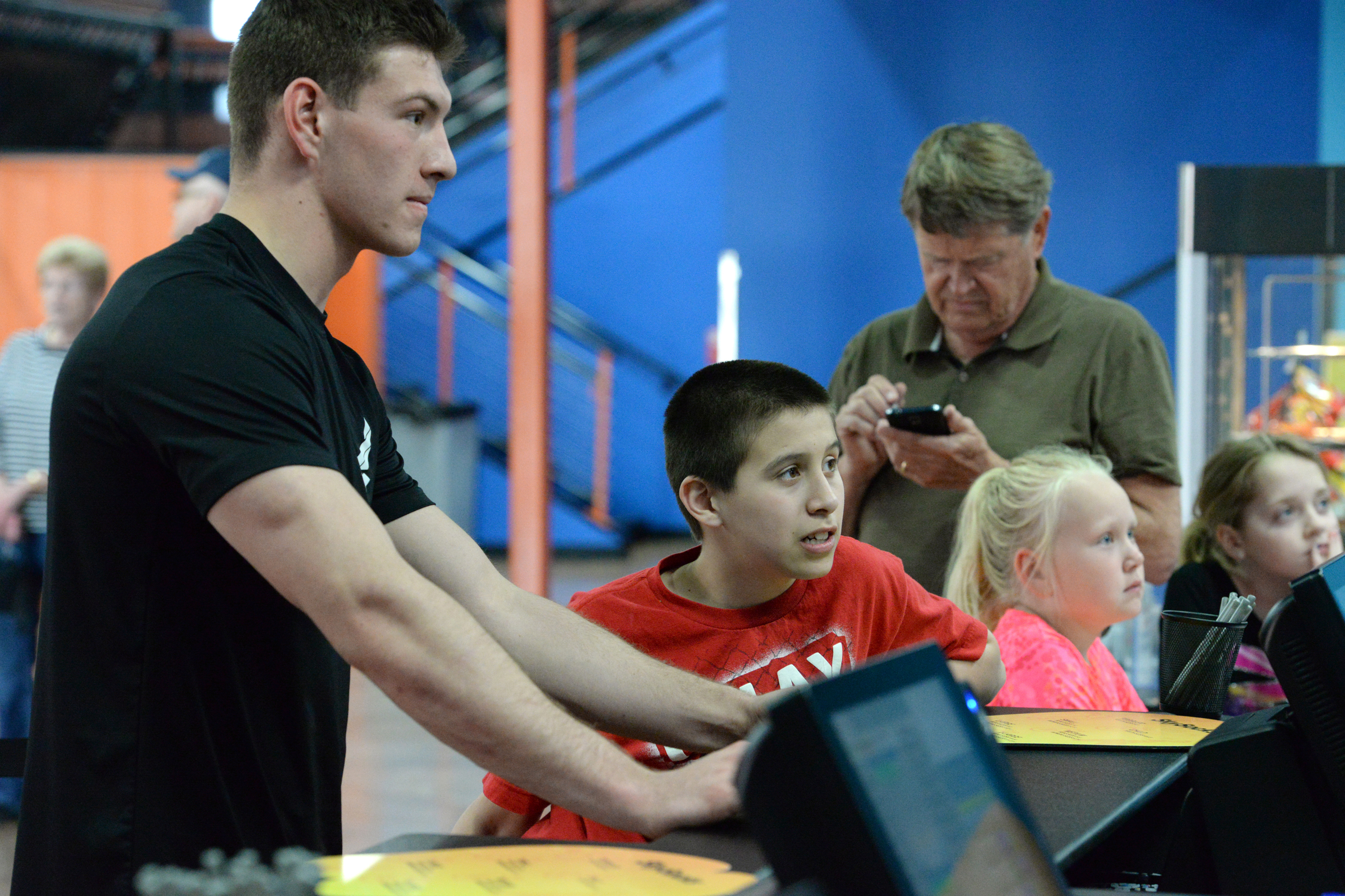 U.S. Air Force Senior Airman Sean Hummel, of the 119th Wing, orders snacks for his ‘little wingman’ Max during an outing at the Sky Zone indoor trampoline park, Fargo, North Dakota, April 16, 2015. Hummel has been mentoring Max for six years and is working on developing a youth mentoring program for members in the 119th Wing through the North Dakota Air National Guard Family Program called the Little Wingman Program. (U.S. Air National Guard photo by Senior Master Sgt. David H. Lipp/Released)